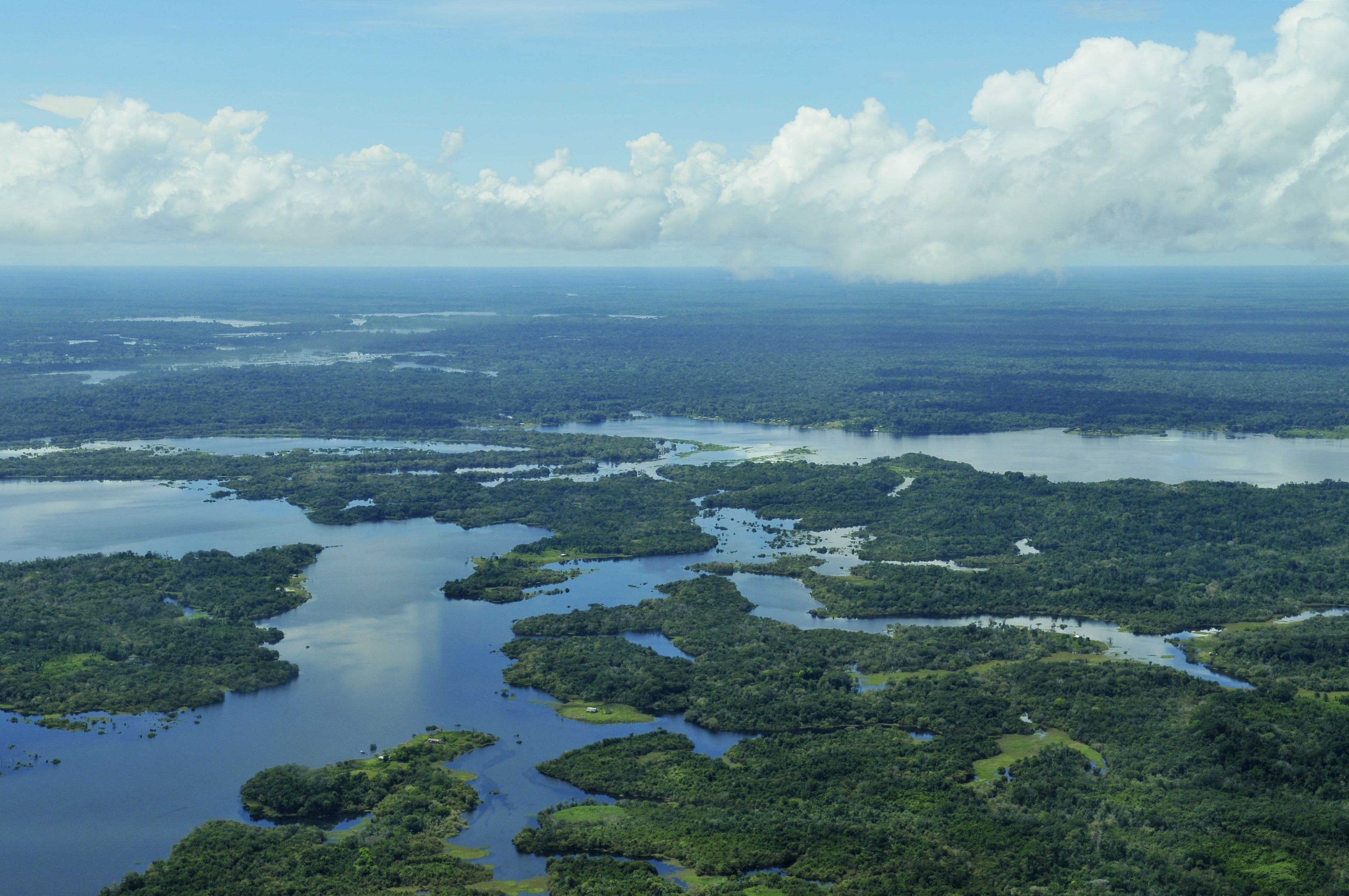 Pic by Neil Palmer (CIAT). Aerial view of the Amazon Rainforest, near Manaus, the capital of the Brazilian state of Amazonas. Please credit accordingly